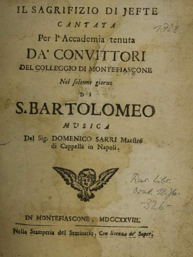 Title page of the score for Domenico Sarro's cantata, Il sagrifizio di Jefte. Originally published in Montefiascone, Italy, 1728